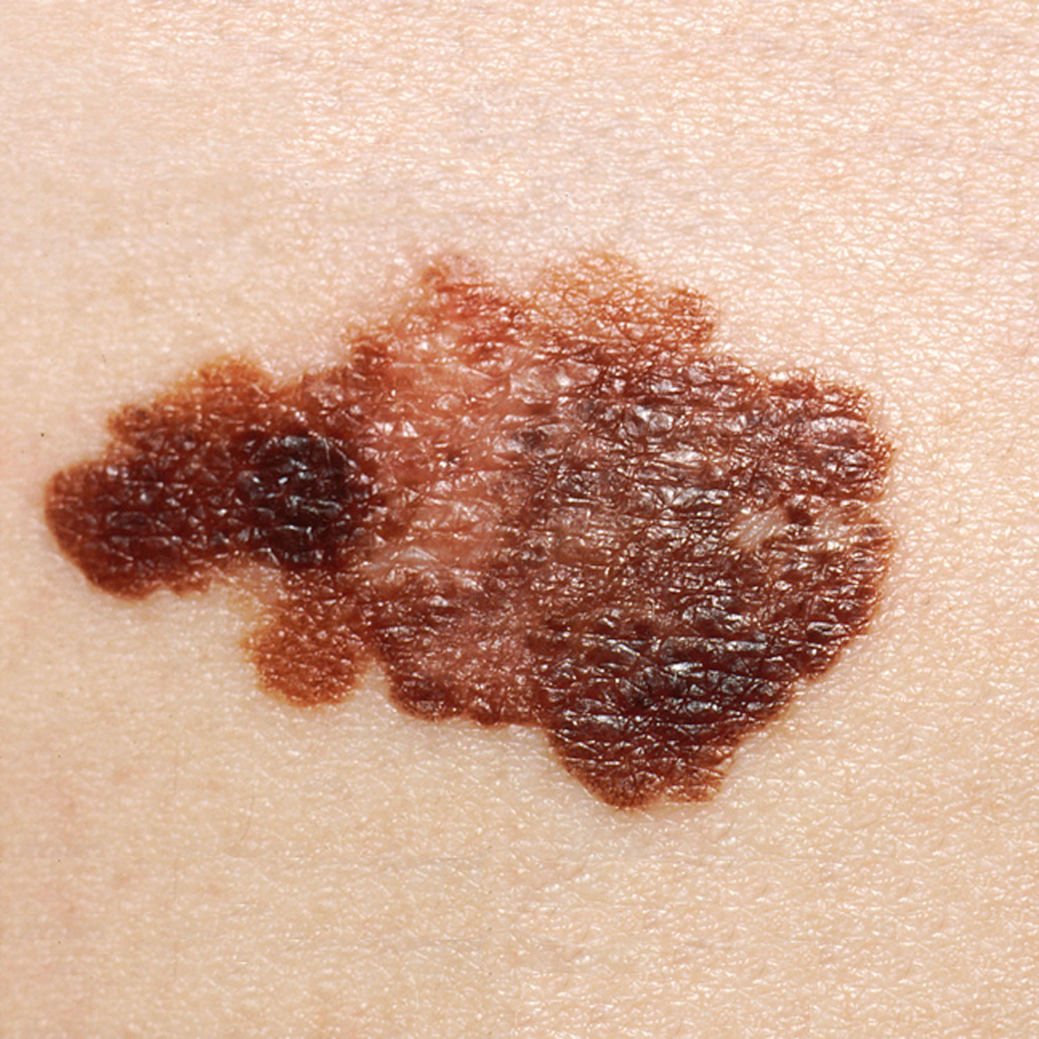 Title Melanoma Description Melanoma on a patient's skin. For additional resource, see the following web site: Topics/Categories Anatomy -- Skin Cancer Types -- Melanoma Cancer Types -- Skin Cancer Cells or Tissue -- Abnormal Cells or Tissue Type Color, Photo Source National Cancer Institute